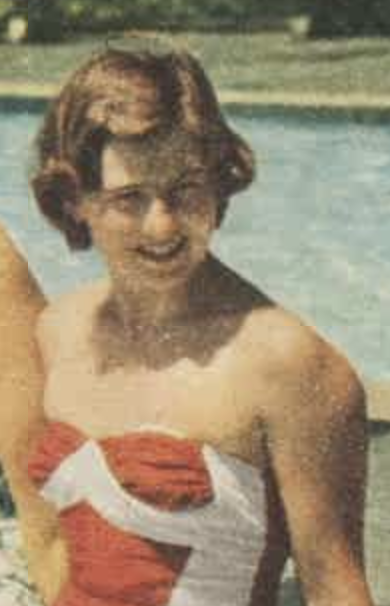 Barbara McAulay (born 1928) Australian diver, 1956 Olympics competitor, 1954 British Empire Games gold medallist